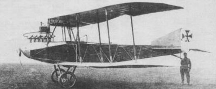 Photo of WW1 aircraft Lloyd C.II 42.11 samf4u.jpg